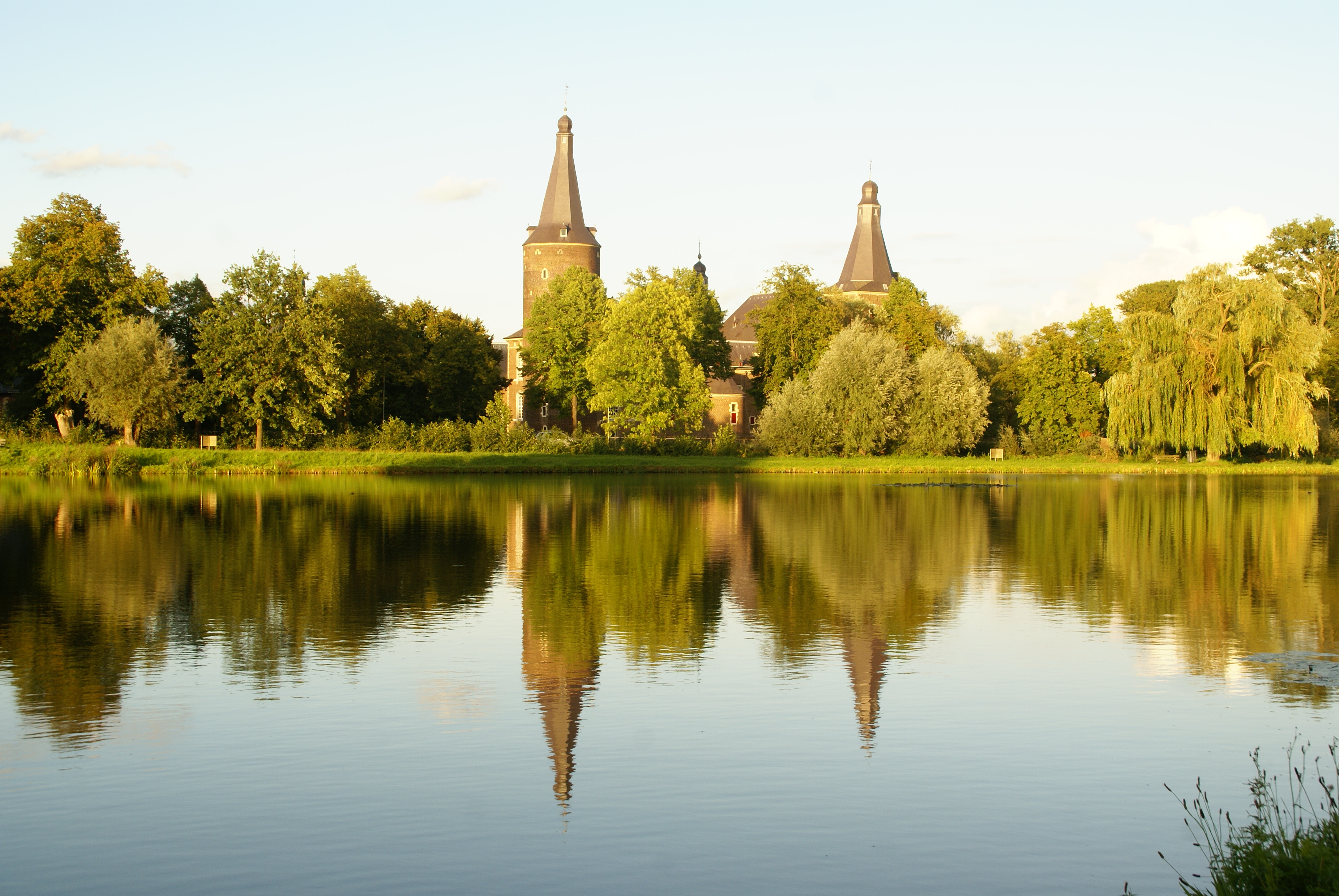 Hoensbroek (The Netherlands): Hoensbroek Hall seen from the Droomvijver pond